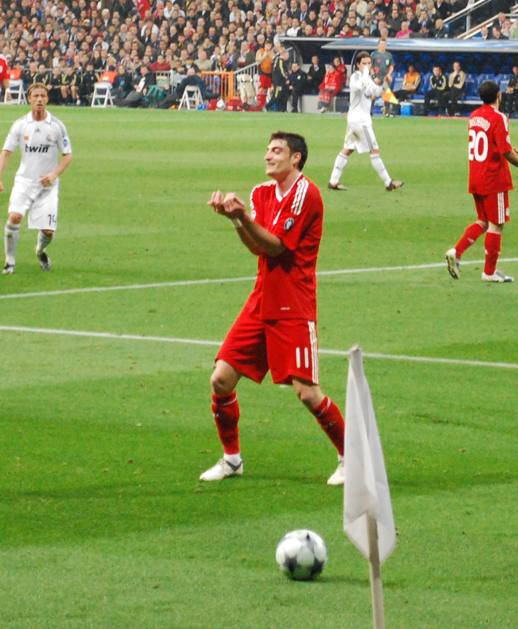 Albert Riera of Liverpool vs Real Madrid